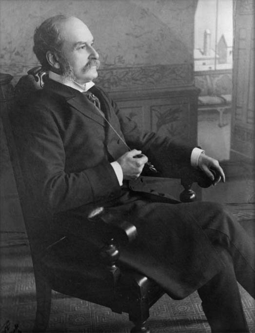 Arthur Sturgis Hardy Source: Archives of Ontario Date: ca. 1900